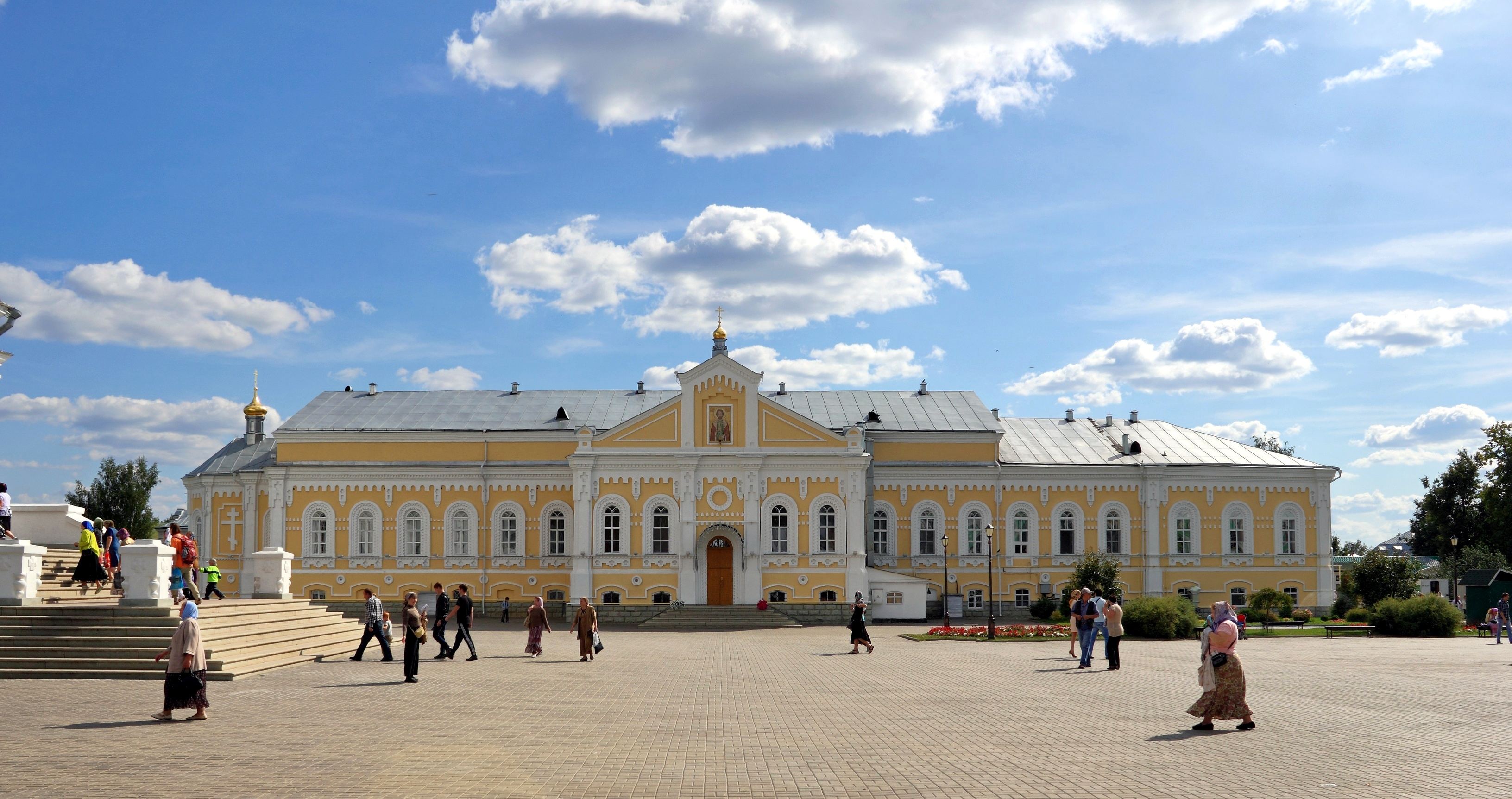 Diveyevo. Serafimo-Diveevsky Monastery.Refectory and Alexander Nevsky Church